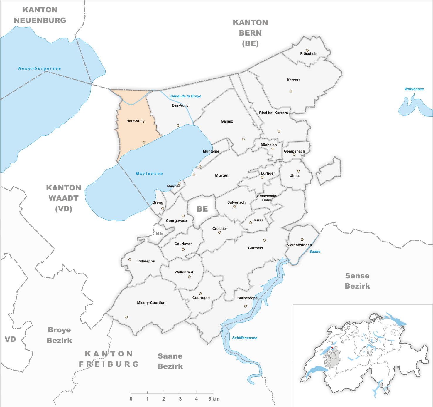 Municipality Haut-Vully